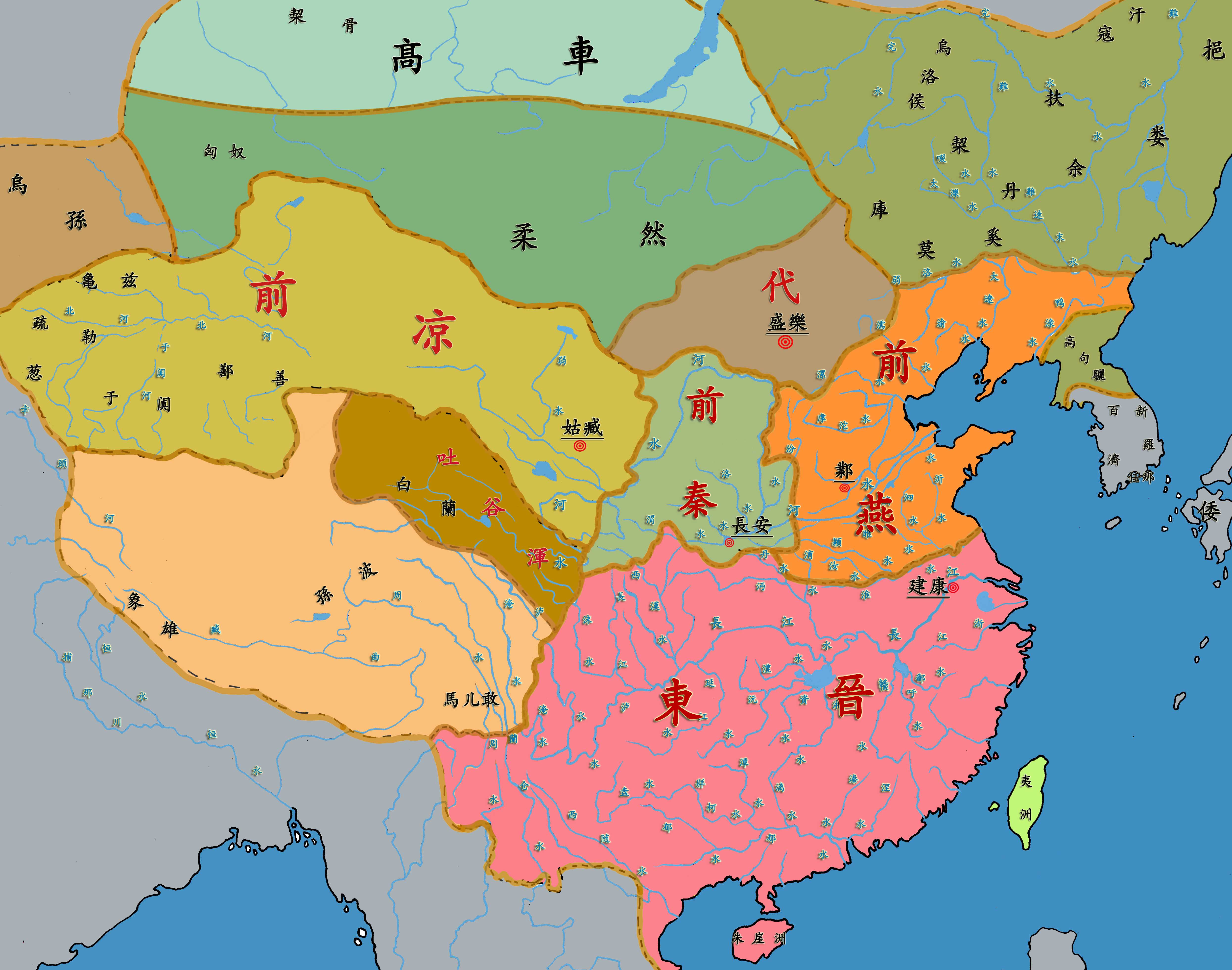 Estern Jin 16 Kingdoms